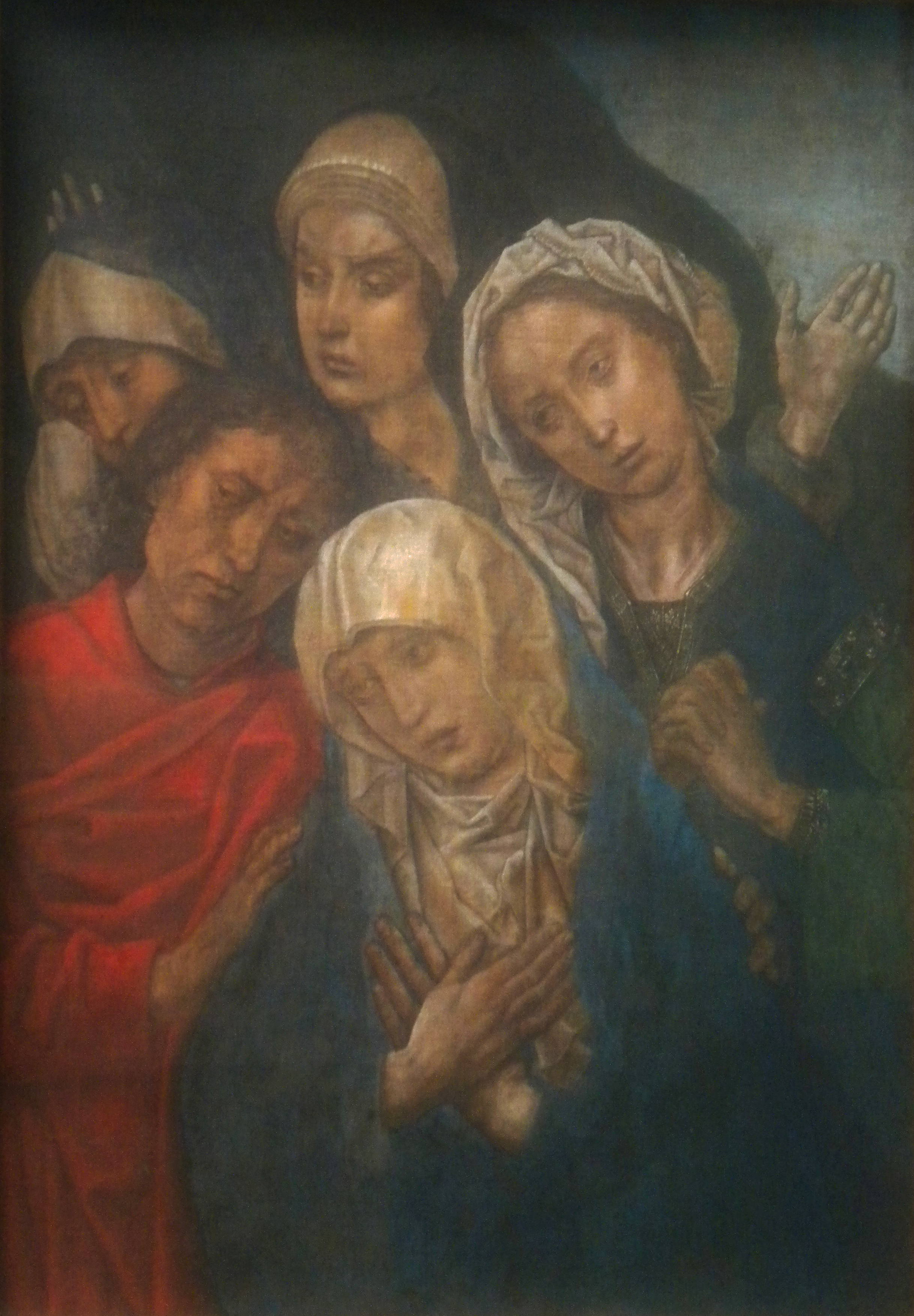 The Mourning of Christ